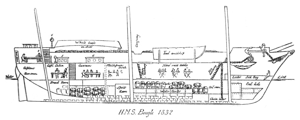 HMS Beagle longitudinal section as of 1832. Numbers on the drawing show the following: 1. Mr Darwins' seat in Capt. cabin 2. Mr Darwins' seat back cabin 3. Mr Darwins' drawers in Capt. cabin 4. Azimuth compass 5. Captains skylight 6. Gunroom